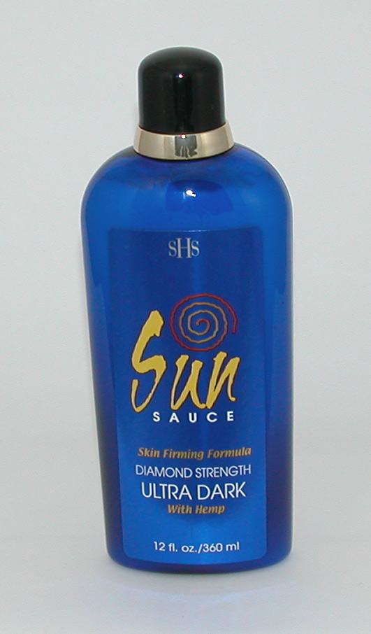 A typical bottle of indoor tanning lotion. Taken in my studio by myself.